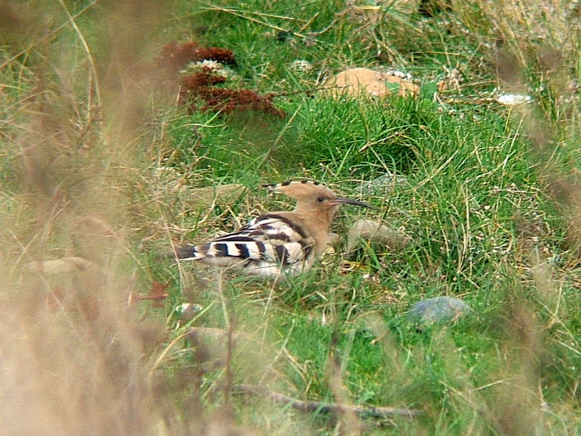 Upupa epops, Boulmer, Northumberland